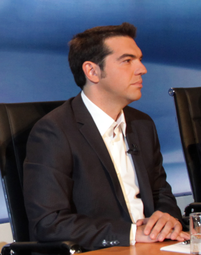 Six party leaders' televised debate ahead of the 2009 Greek legislative elections. From left to right: Nikos Chrisogelos (Ecologist Greens), Georgios Karatzaferis (LAOS), Alexis Tsipras (SYRIZA), Aleka Papariga (KKE), Giorgos Papandreou (PASOK), prime minister Kostas Karamanlis (ND).